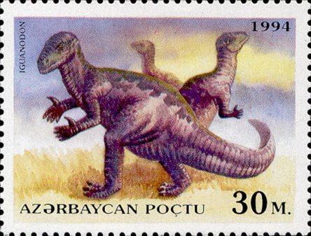 Stamp of Azerbaijan